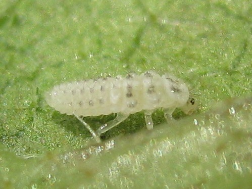 Fungus-eating lady beetle, Psyllobora vigintimaculata, larva on ground cherry. ennypack Restoration Trust, Montgomery County, Pennsylvania, USA.